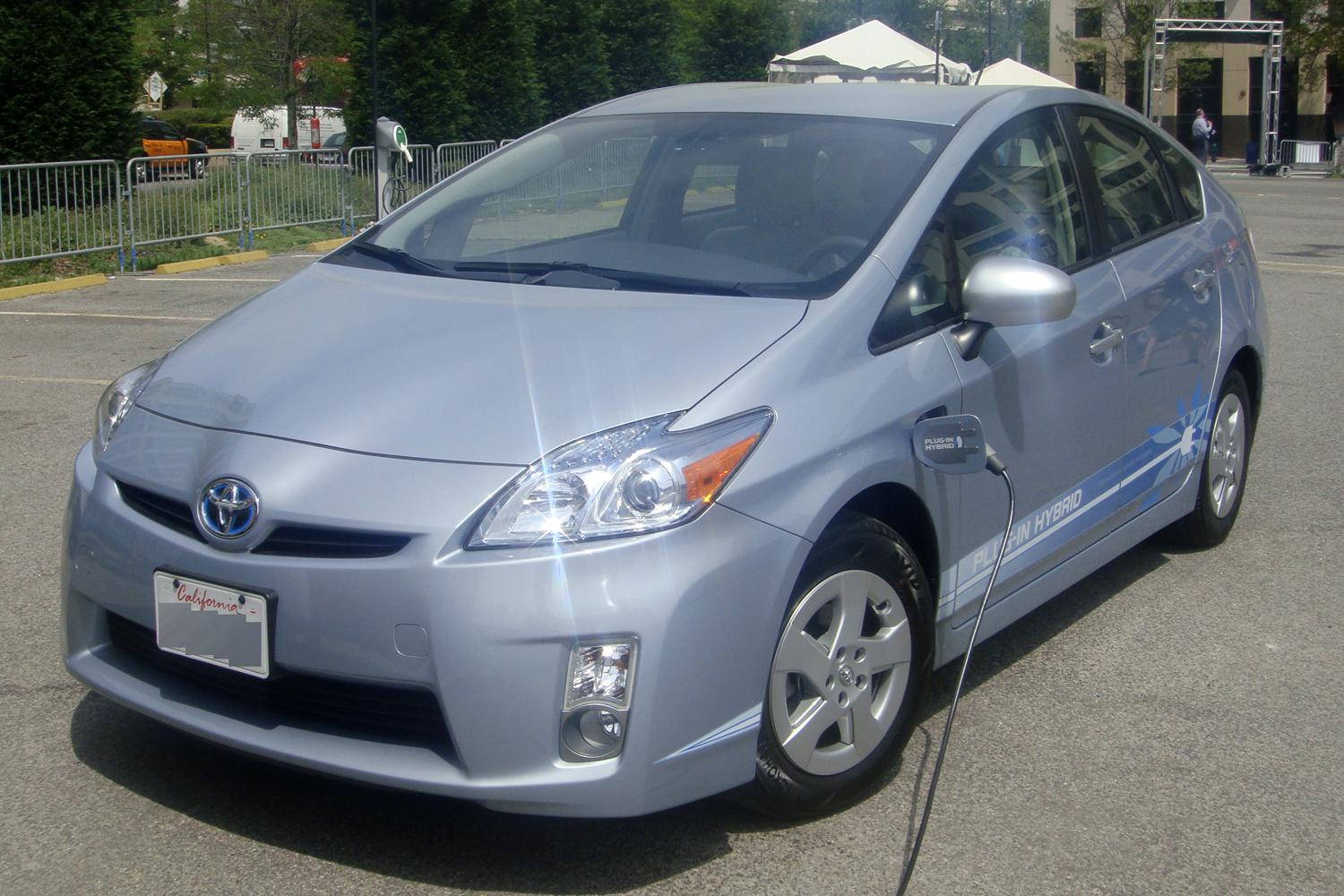 Prius Plug-in Hybrid recharging from a mobile station in the Ride, Drive & Charge event organized by the EDTA, downtown Washington, D.C.